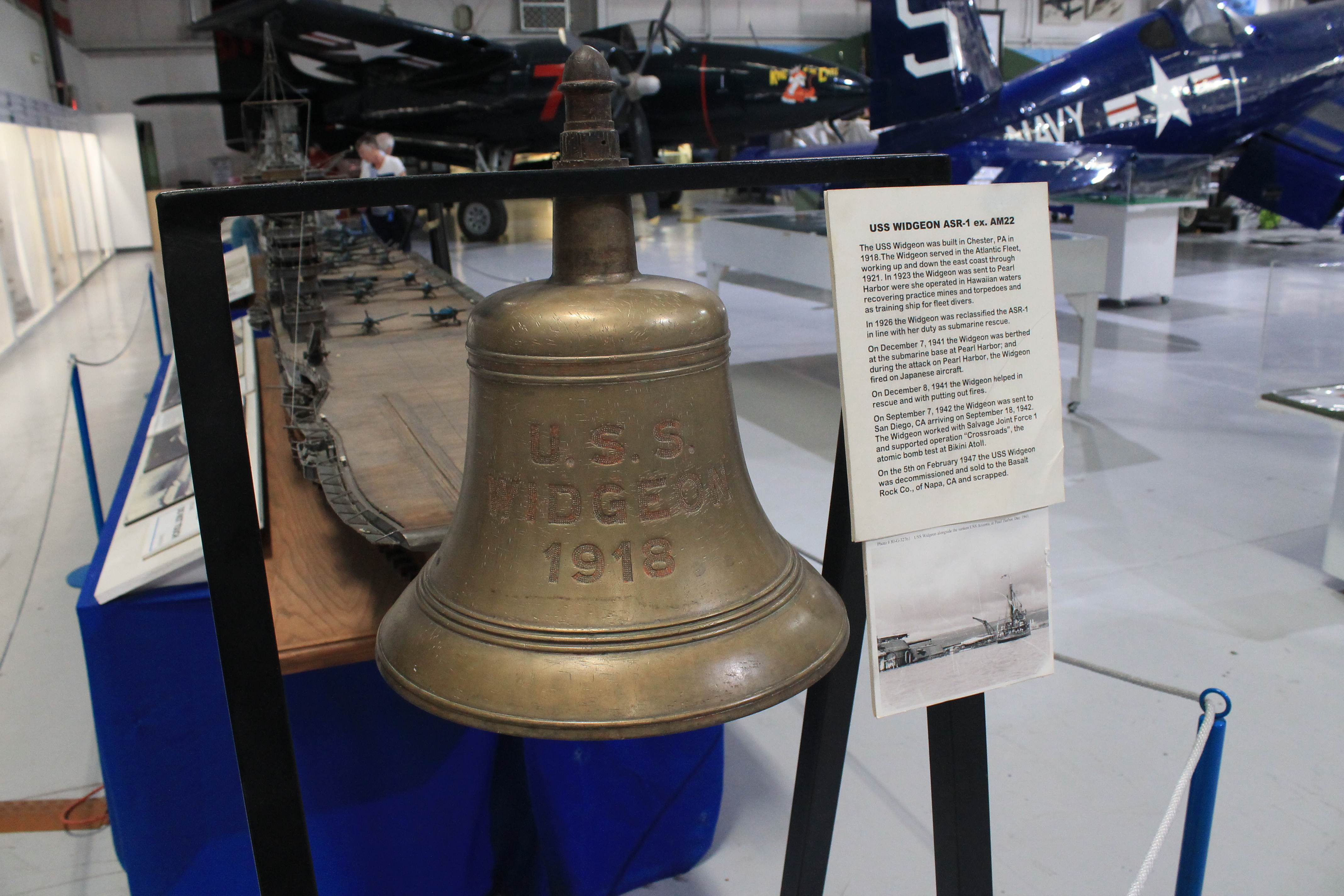 The bell of the USS Widgeon (ASR-1) on display at the Palm Springs Air Museum, 11 March 2018.